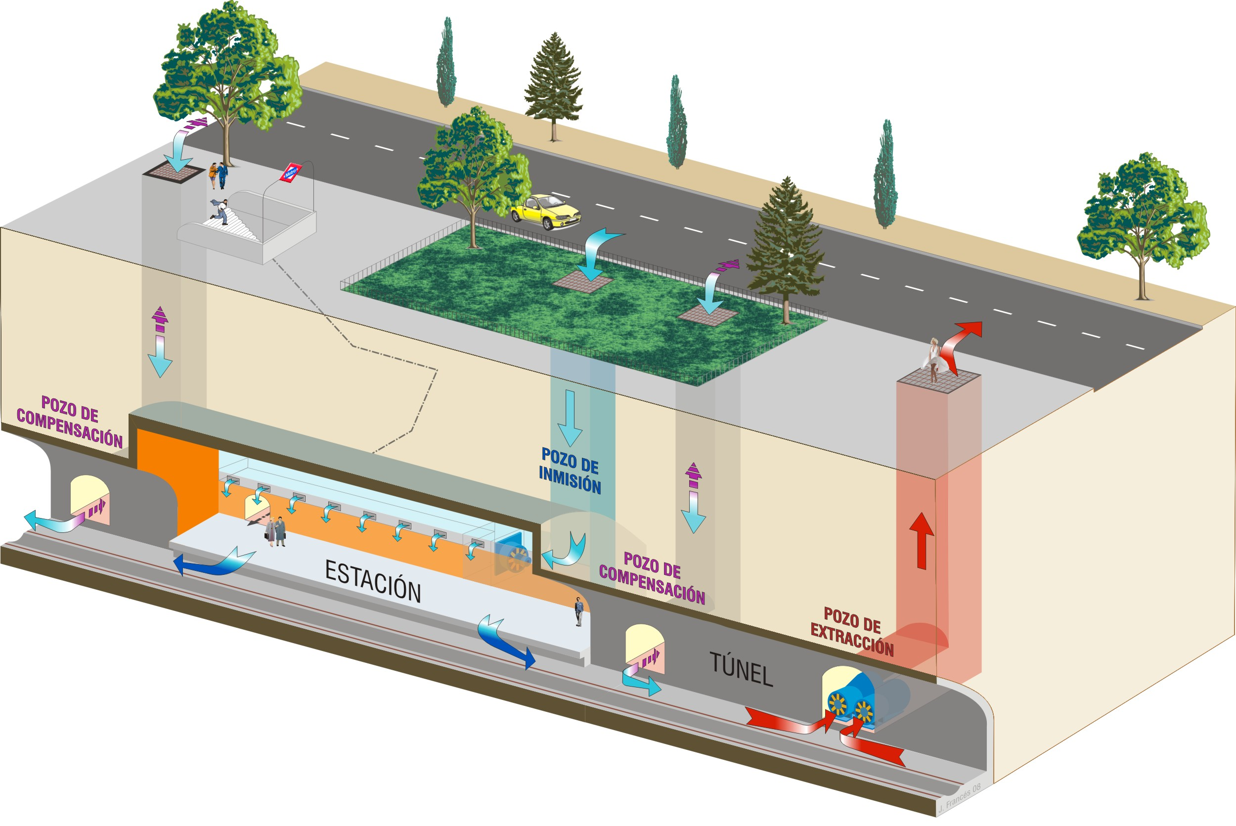 Madrid Metro network ventilation.